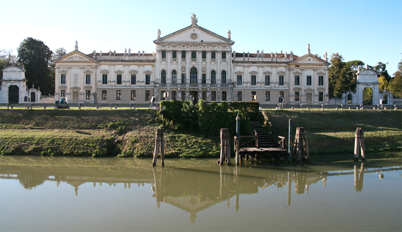 Villa Pisani si riflette nel Brenta